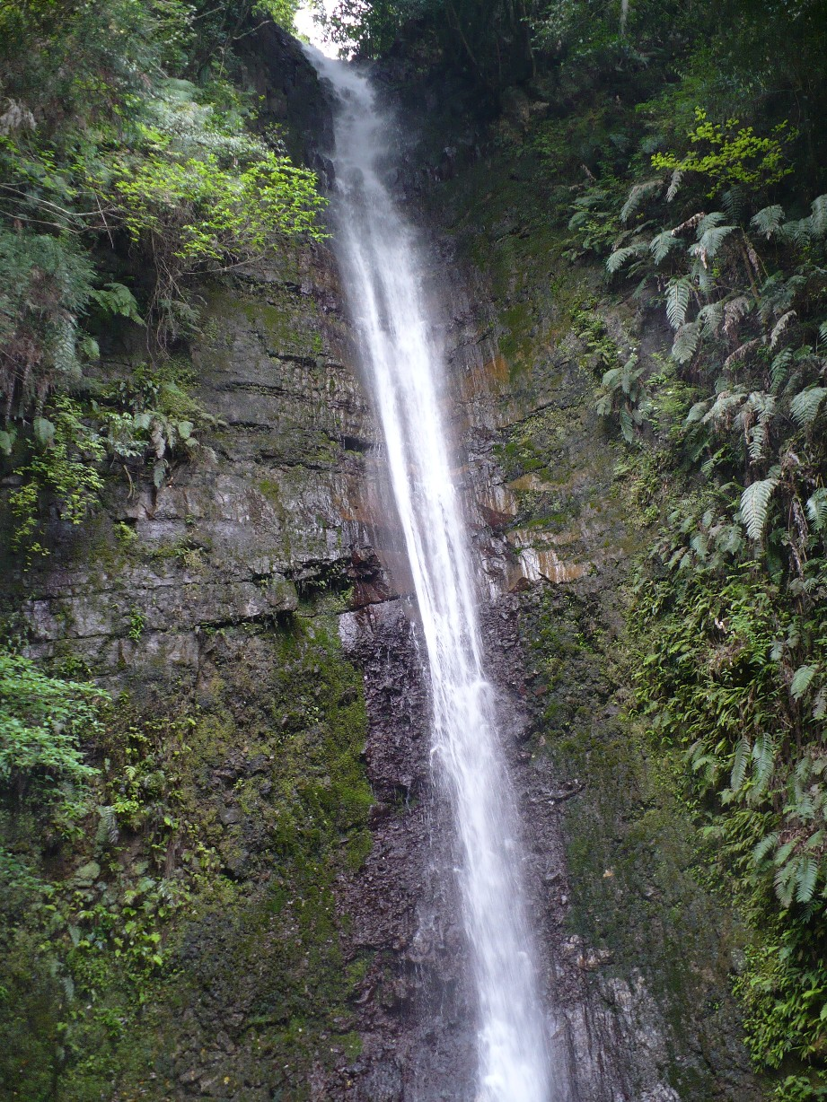 Nunobiki fall in Aira town Kagoshima prefecture, Japan. Note that there are many falls that have the name "Nunobiki" in Japan